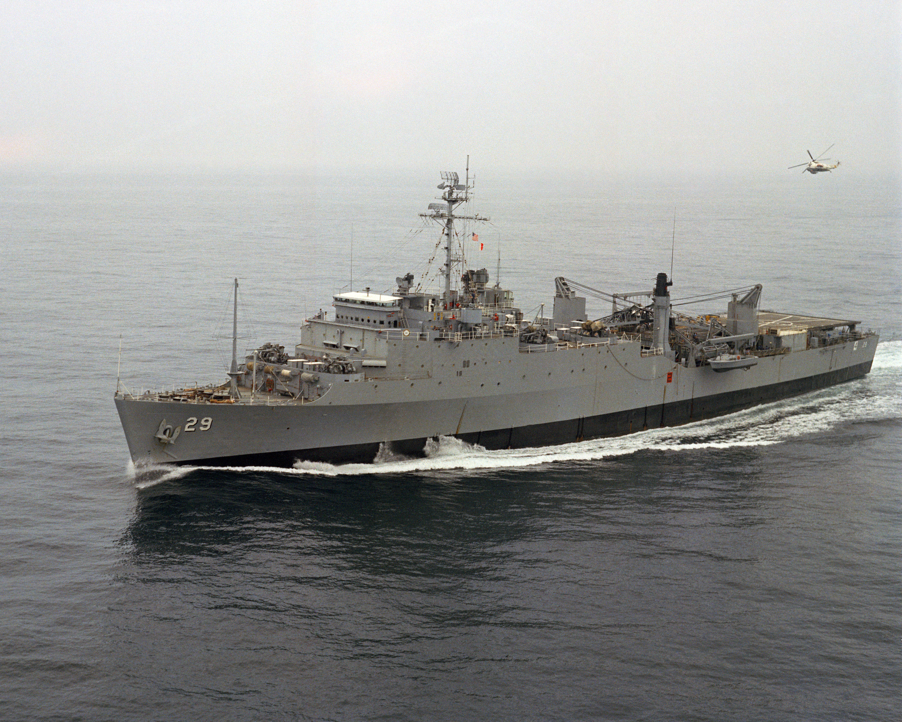 The U.S. Navy amphibious dock landing ship USS Plymouth Rock (LSD-29) underway in 1974.